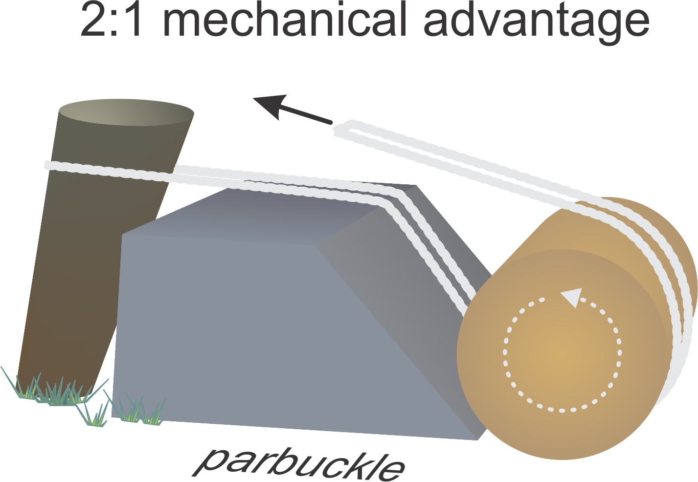 A parbuckle is a method of using line or cable which passes around an object, to gain mechanical advantage in lifting or moving the object.